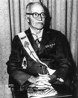 E. Urner Goodman (1891-1980), founder of the Order of the Arrow in 1915 and later national program director of the Boy Scouts of America (1931-1951)